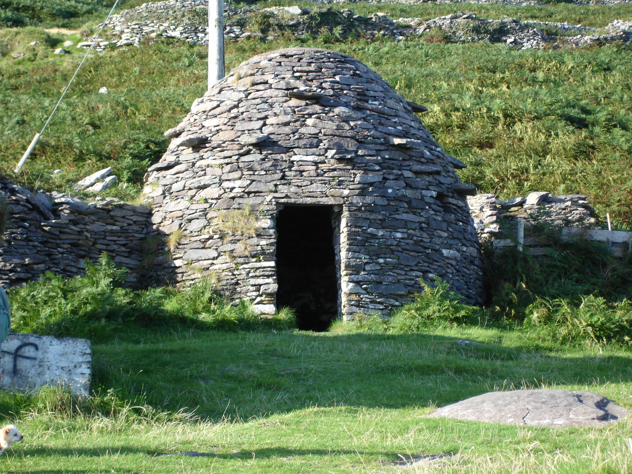 Beehive hut, Dingle Peninsula, Co. Kerry, Southern Ireland (Eire)